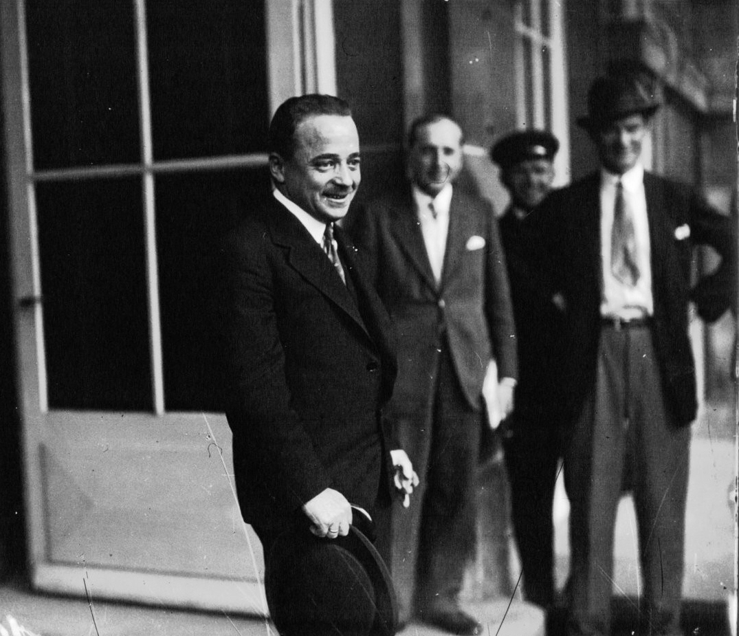 Austrian christian democratic politician and Federal Chancellor Engelbert Dollfuß in Paris in 1933